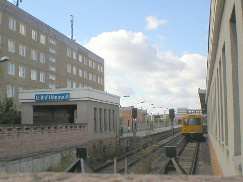 Berlin's underground station Hönow, Berlin, Germany